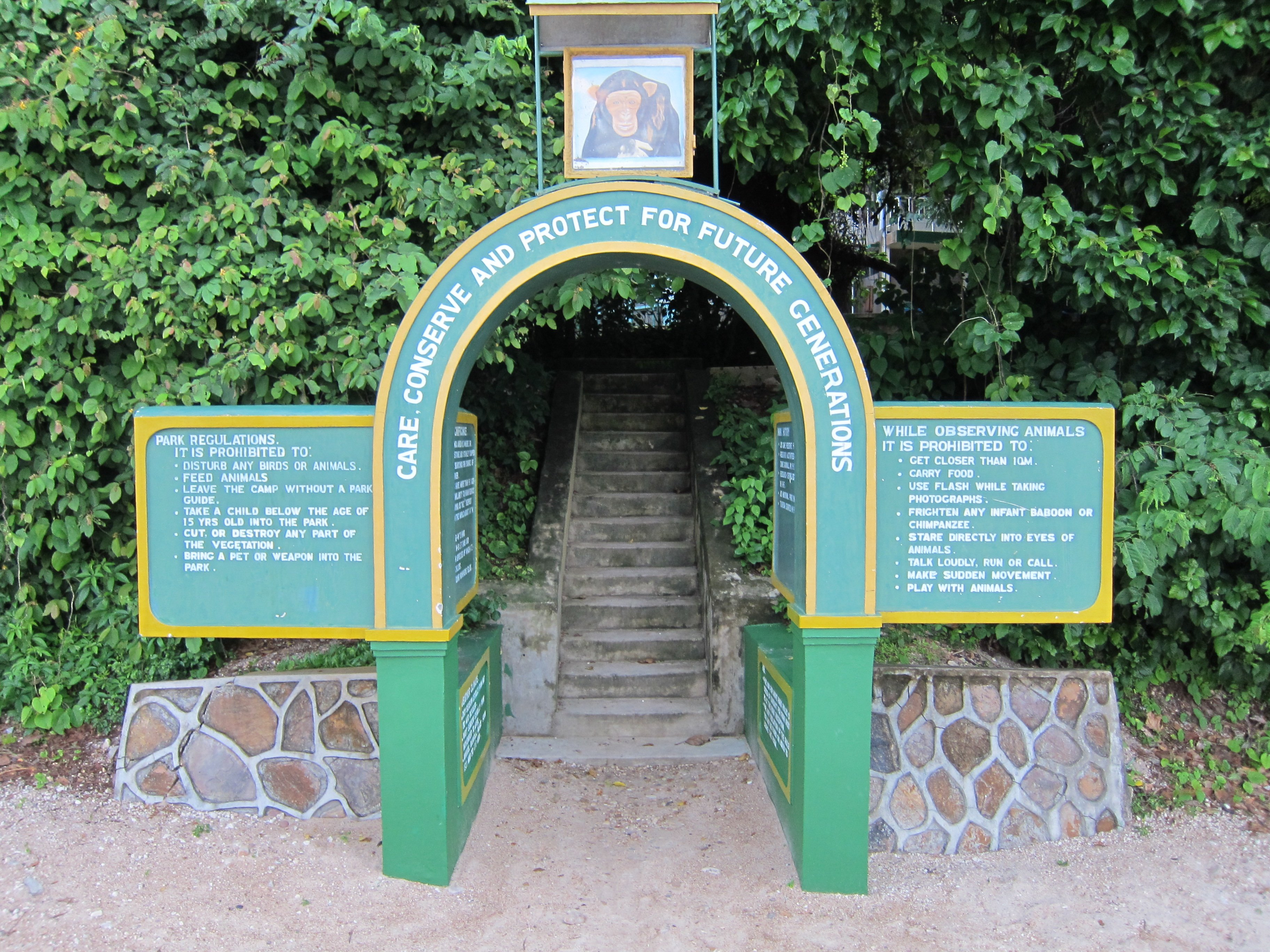 Gombe Stream National Park, Lake Tanganyika, Tanzania